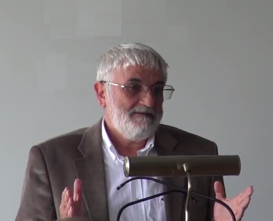 prof. Valeri Dimitrov